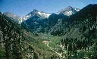 Mineral King Valley, Sequoia National Park, California, USA. Taken from Timber Gap